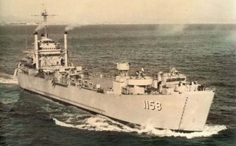 United States Navy landing ship tank USS Tioga County (LST-1158) sometime between 1953 and 1970